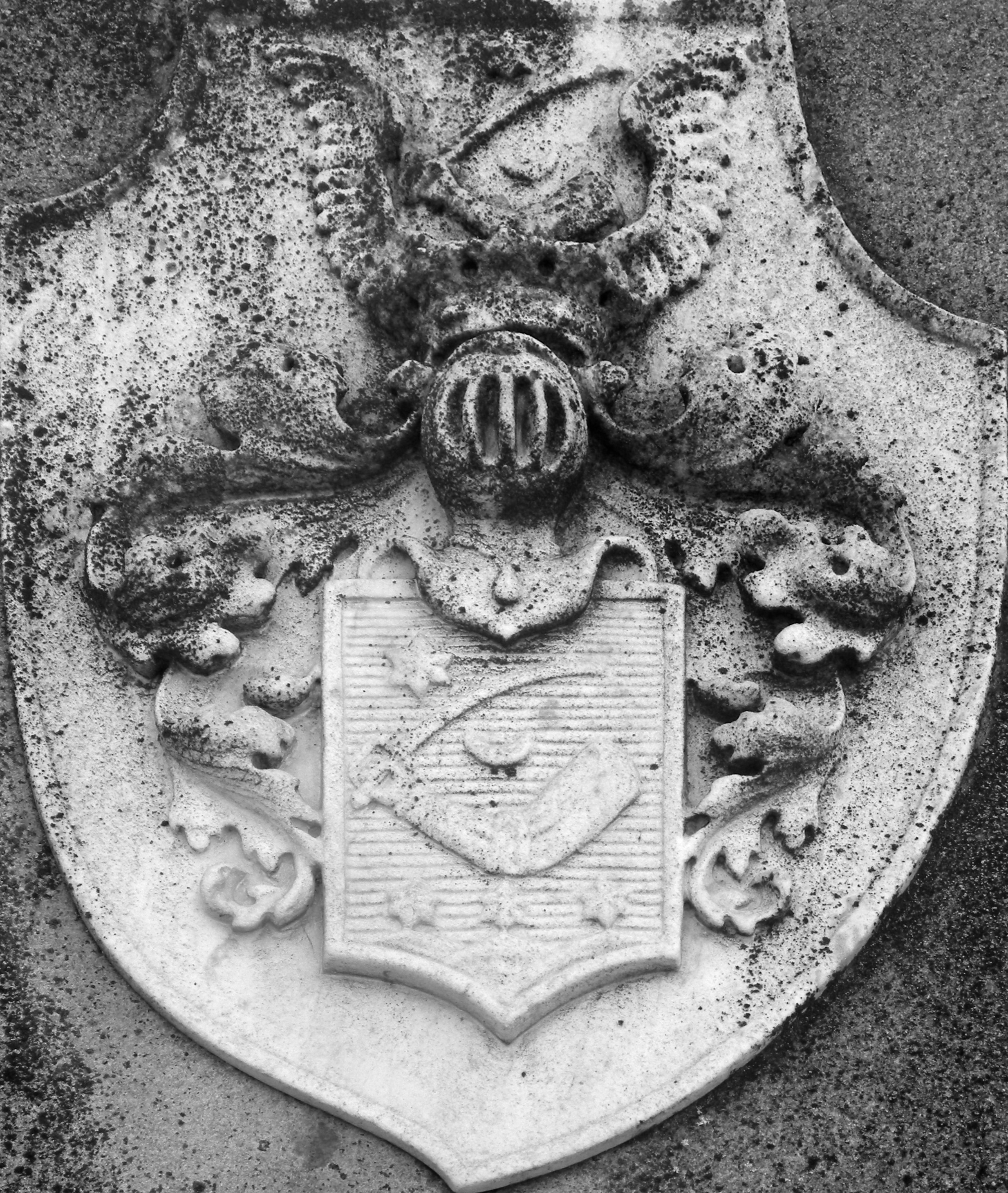 Coat of arms of Ferenc Nozdroviczky (1828 - 1886), cemetery, Rajka. Inscription on the gravestone: "Nemes // Nozdroviczi // Nozdroviczky // család. // Családi sírboltja. // Alapitotta // Nozdroviczy Nozdroviczky // Ferencz // rajkai közbirtokos // 1886 ban.".